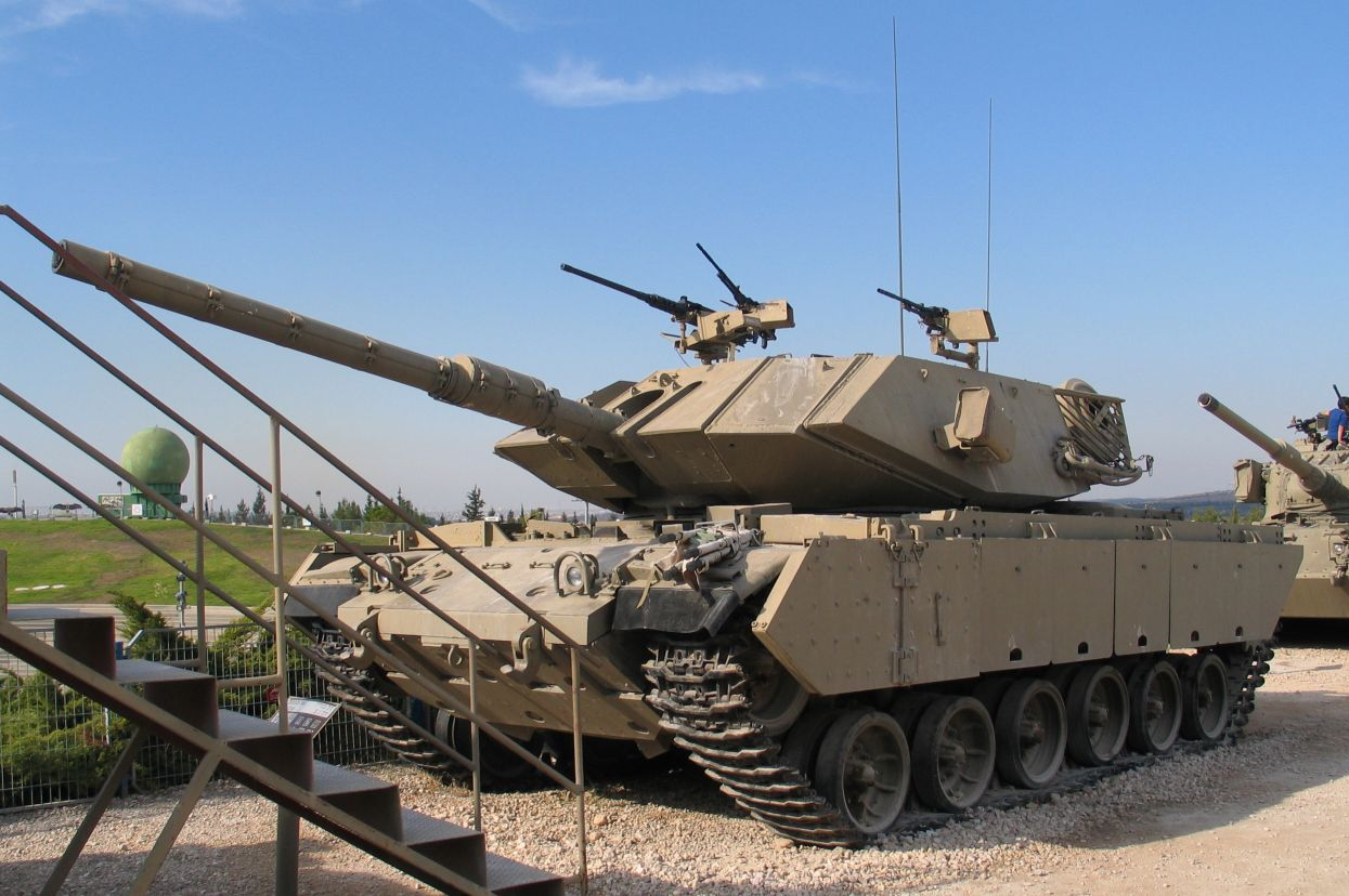 Description: Magach 7 tank in Yad la-Shiryon Museum, Israel. 2005. Source: Photo by me, User:Bukvoed.